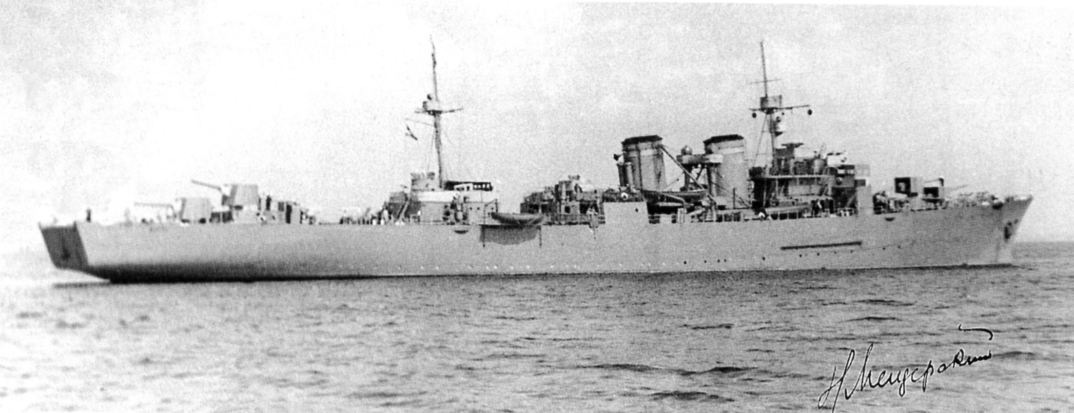 Soviet minelayer Marti in 1942 (as result of reconstruction the former Russian Imperial Yacht Standart).